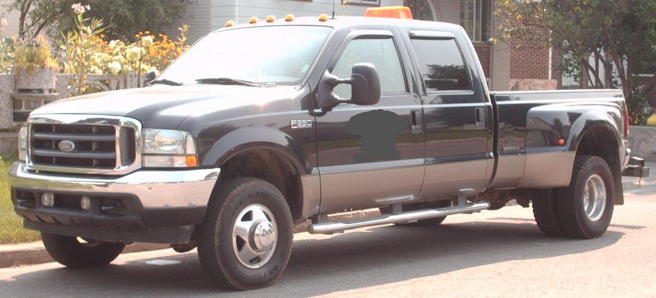 1999-2004 Ford F-350 Super Duty photographed in Montreal, Quebec, Canada.